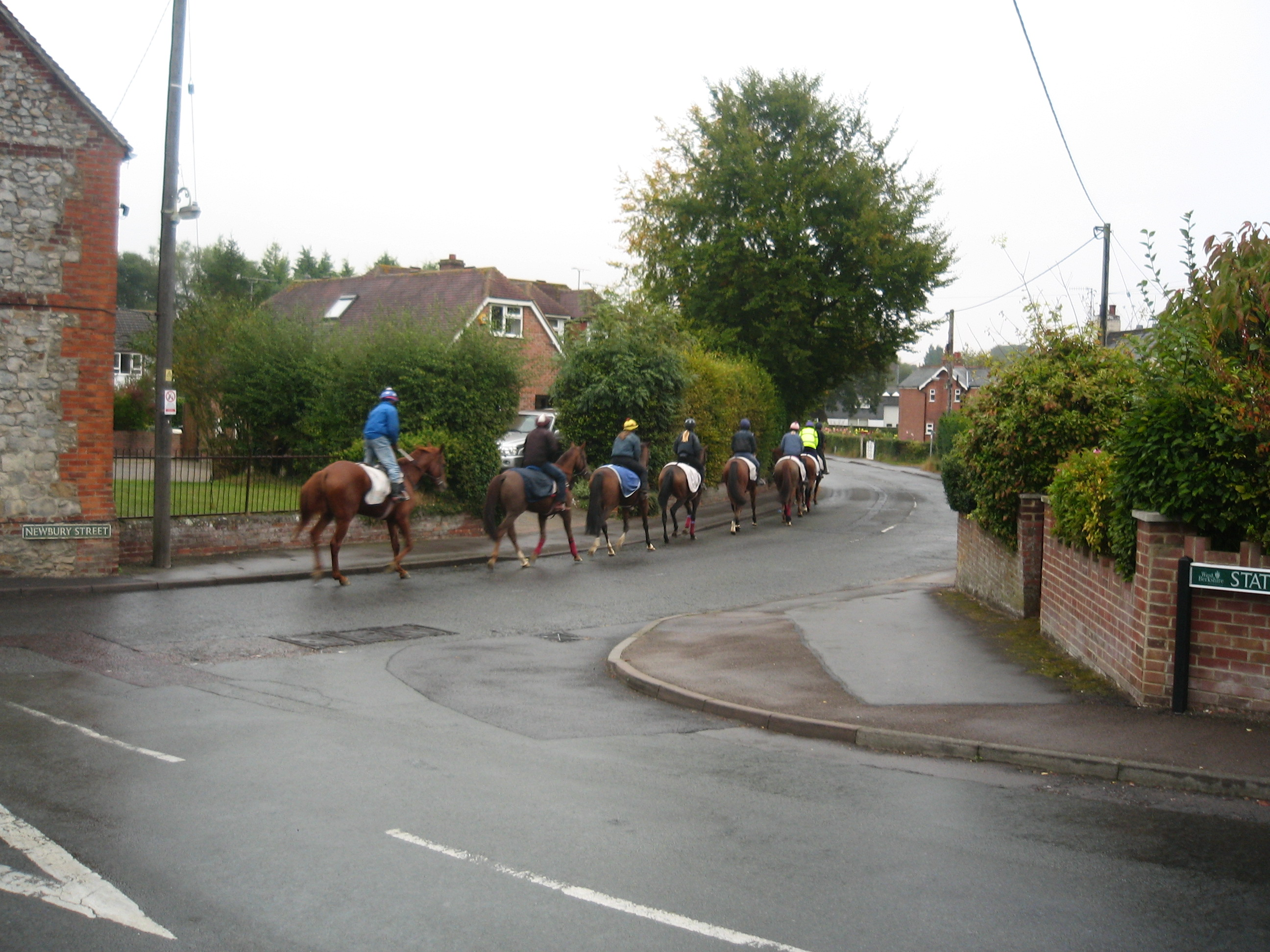 Jockeys taking horses to the gallops, Lambourn, Berkshire